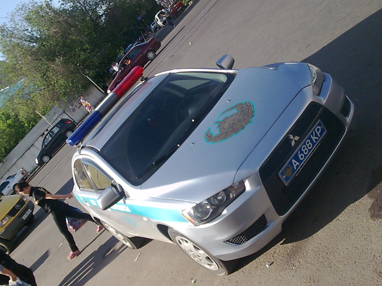 The police car in Almaty city.